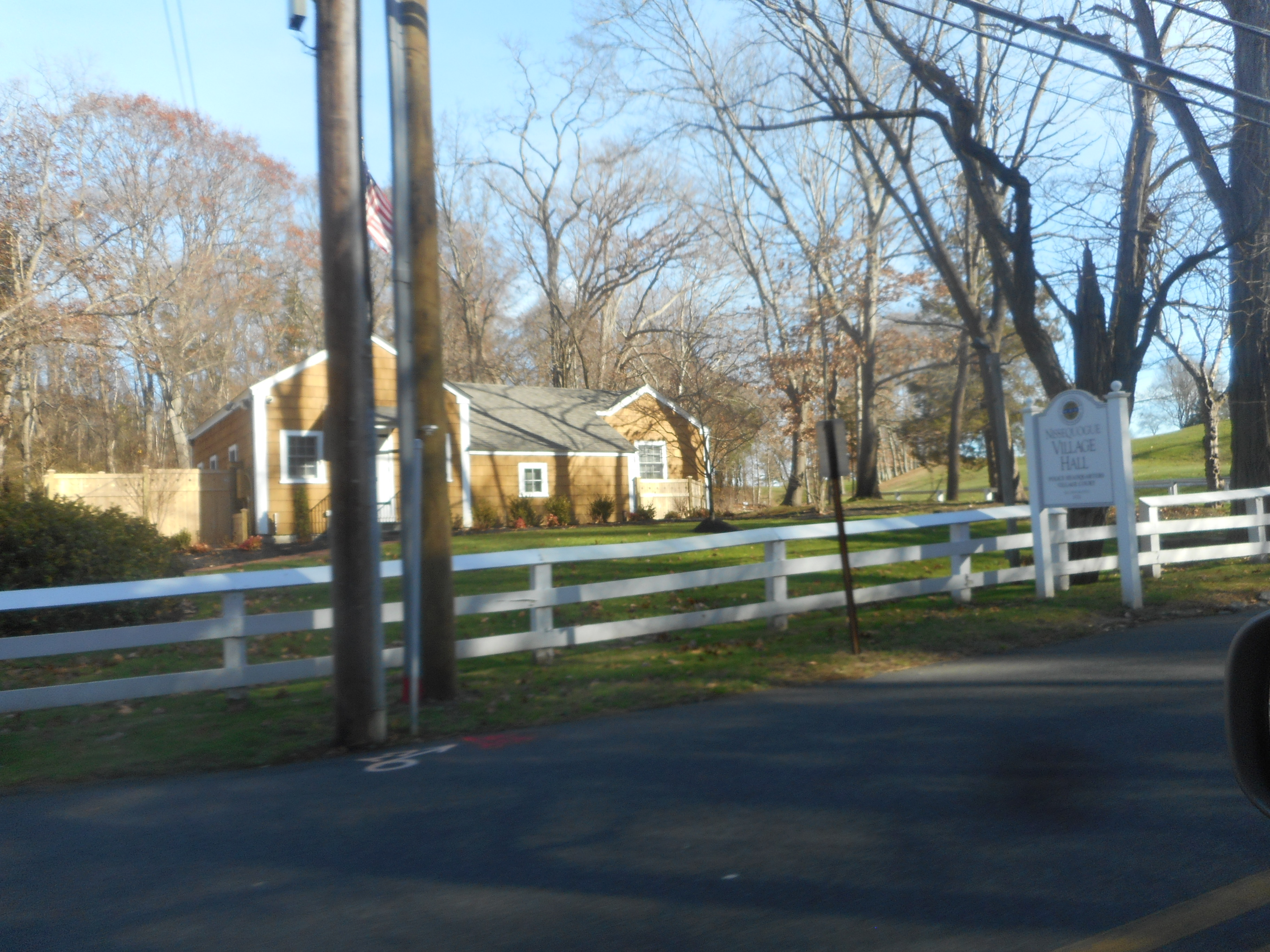 The Nissequogue Village Hall, local police department headquarters and village court on the corner of Moriches Road and Golf Club Road in Nissequogue, New York. Across from this corner, is the Nissequogue Golf Club, whose clubhouse is the NRHP-listed William J. Ryan Estate.